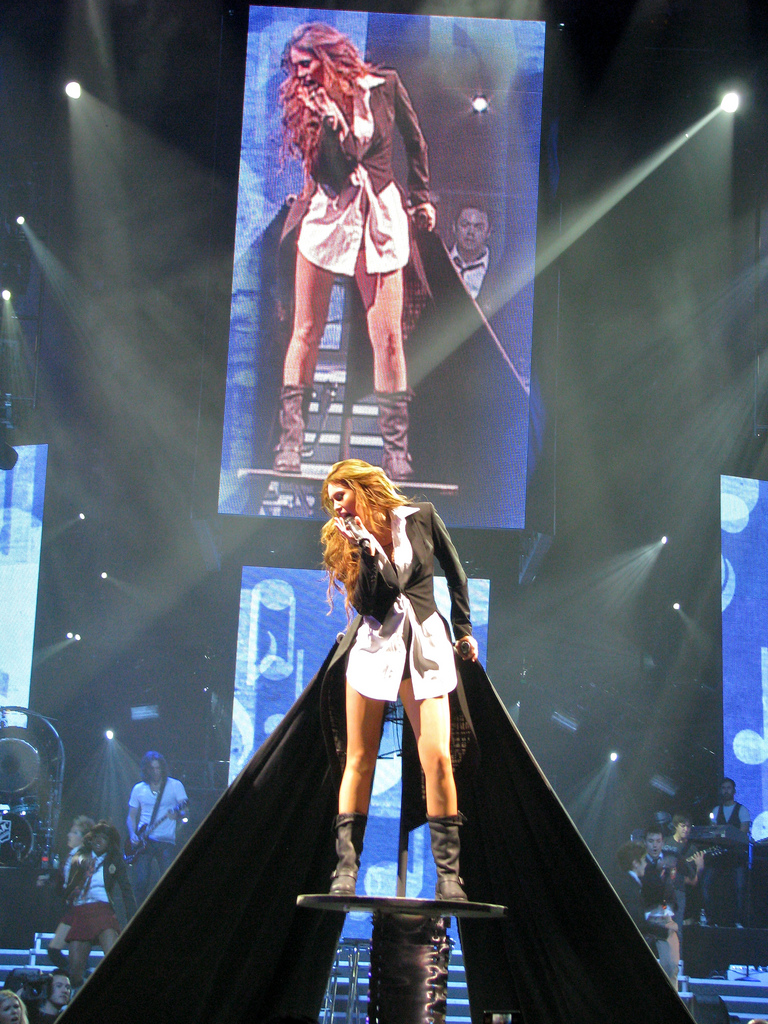 Pop singer Miley Cyrus performs "Simple Song", wearing a long white shirt and tuxedo, atop a single elevator, on September 14, 2009 at the Rose Garden in Portland, Oregon, as part of her 2009 Wonder World Tour.